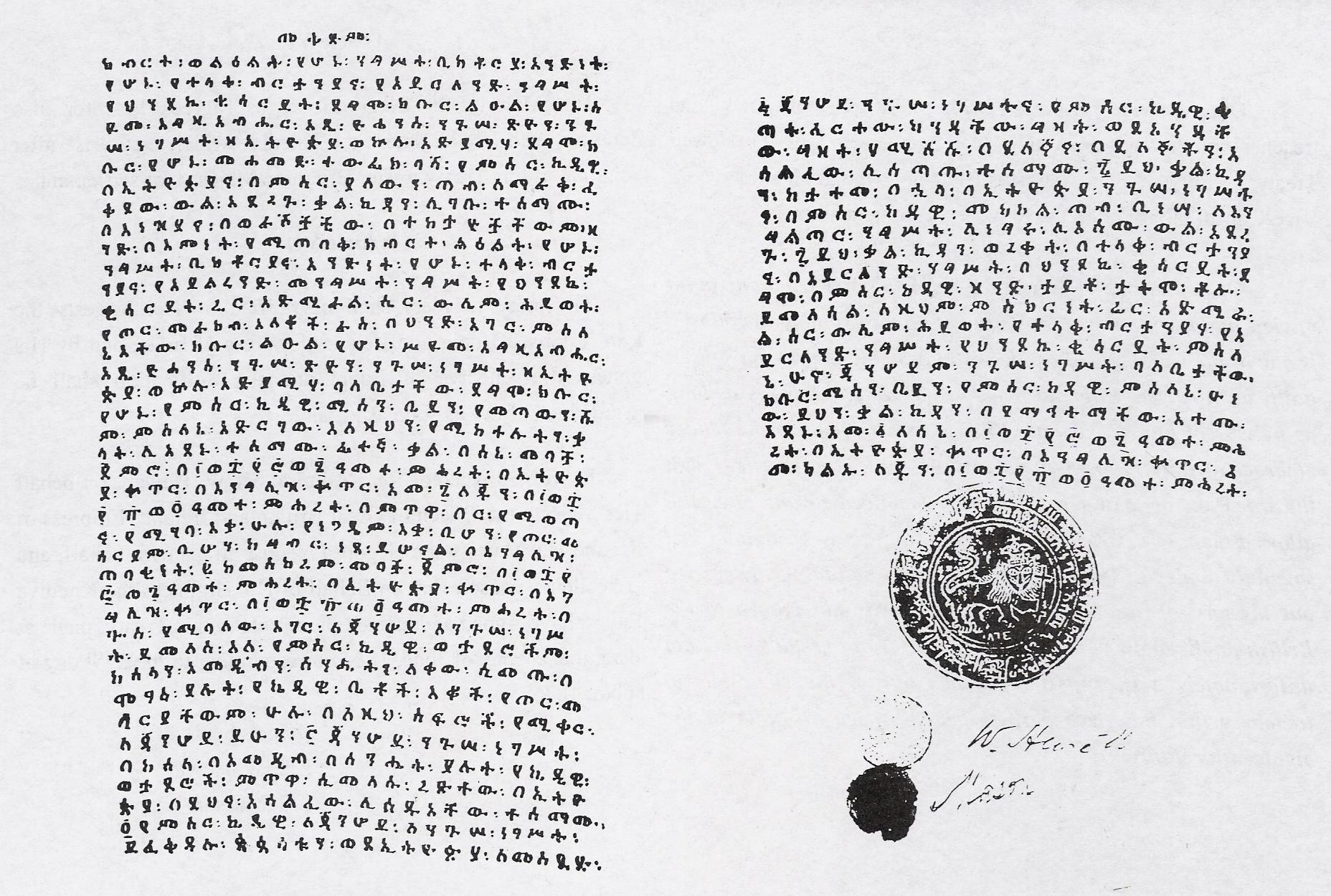 Original in amharic of the Adwa treaty, also known as, Hewett treaty